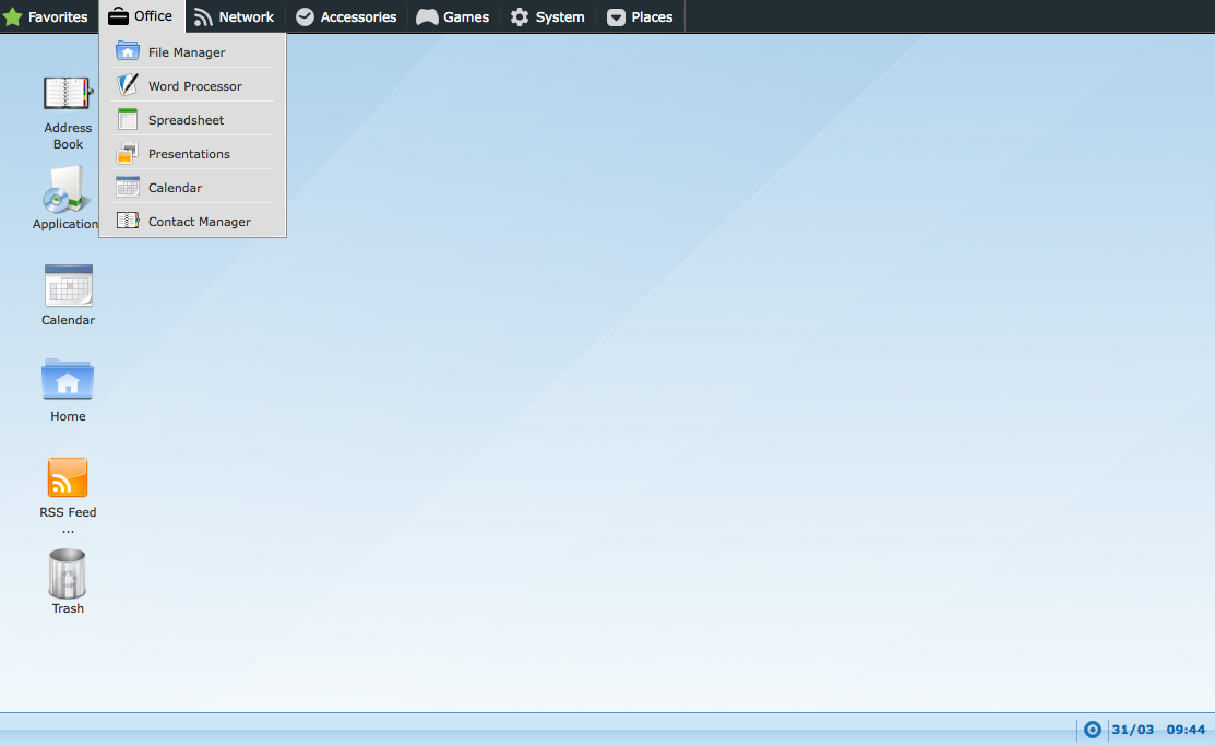 Default desktop for eyeOS 1.8.5